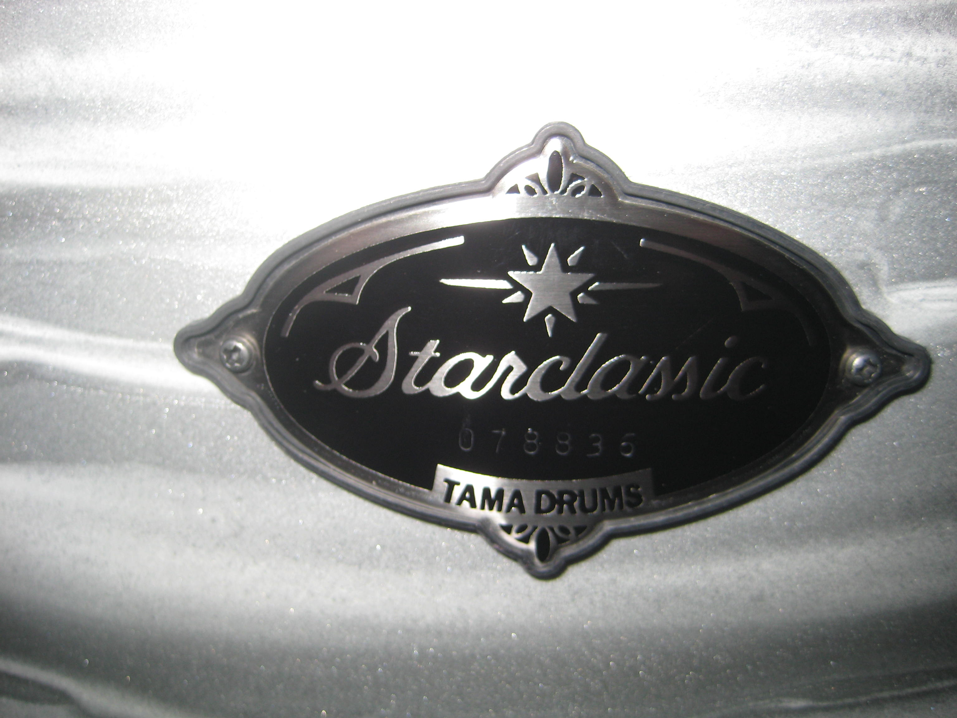 Tama Starclassic Performer B/B badge, lacquered white oyster finish